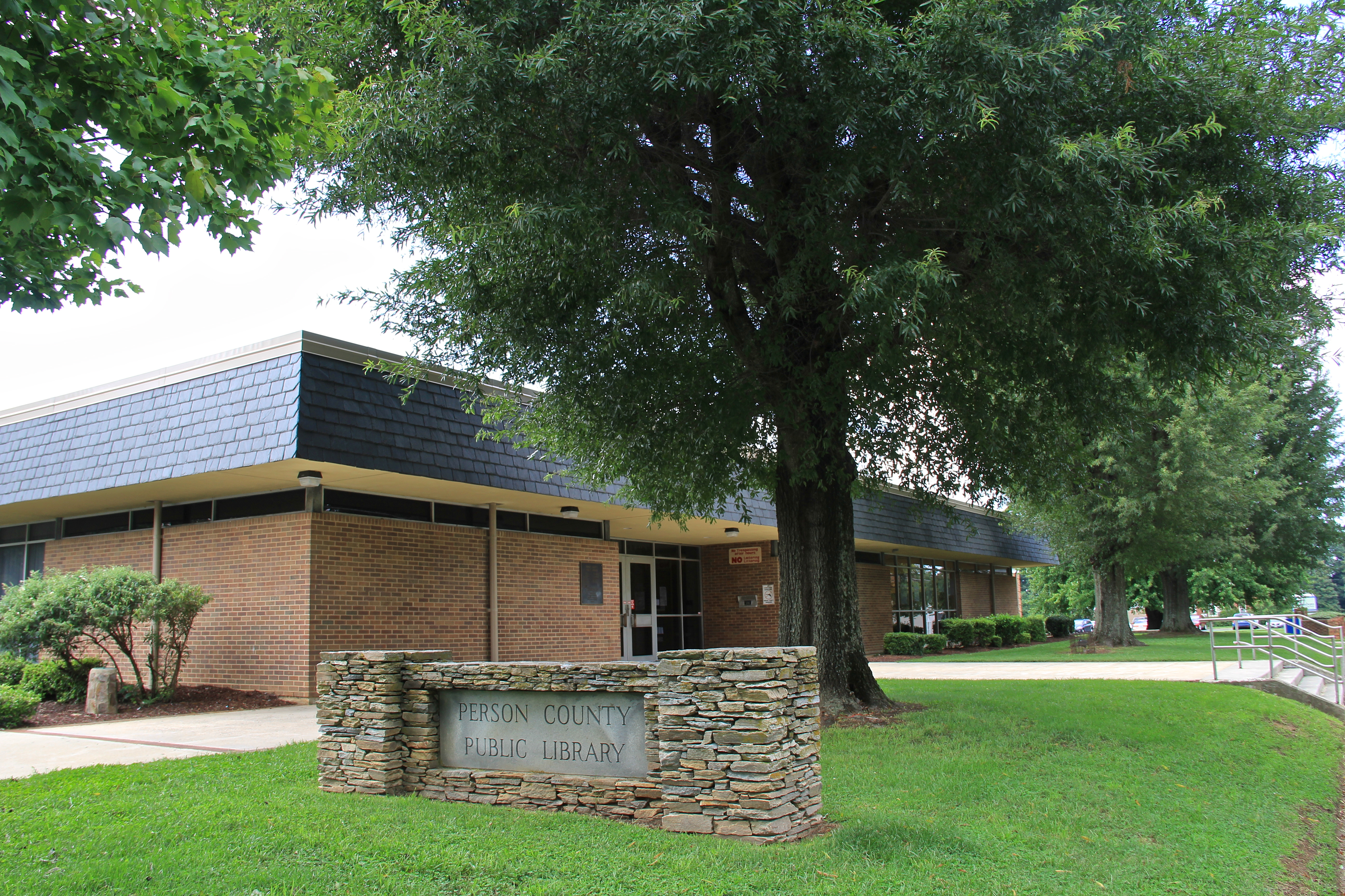 Person County Public Library. This image was uploaded as part of Wikipedia Summer of Monuments. English |+/−